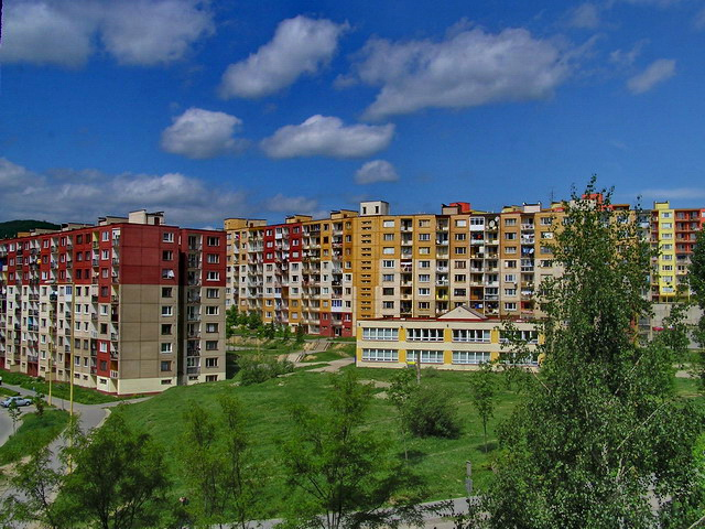 Athens Street